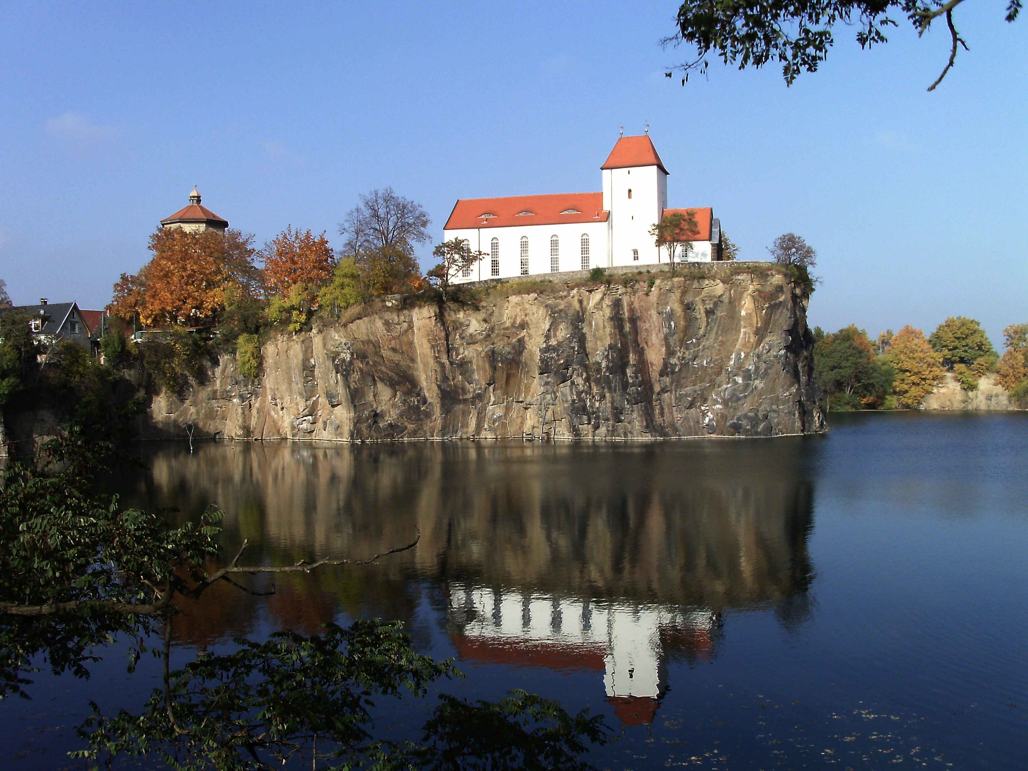 Church on the Hill in Beucha (Brandis, Leipzig district, Saxony) with the former quarry